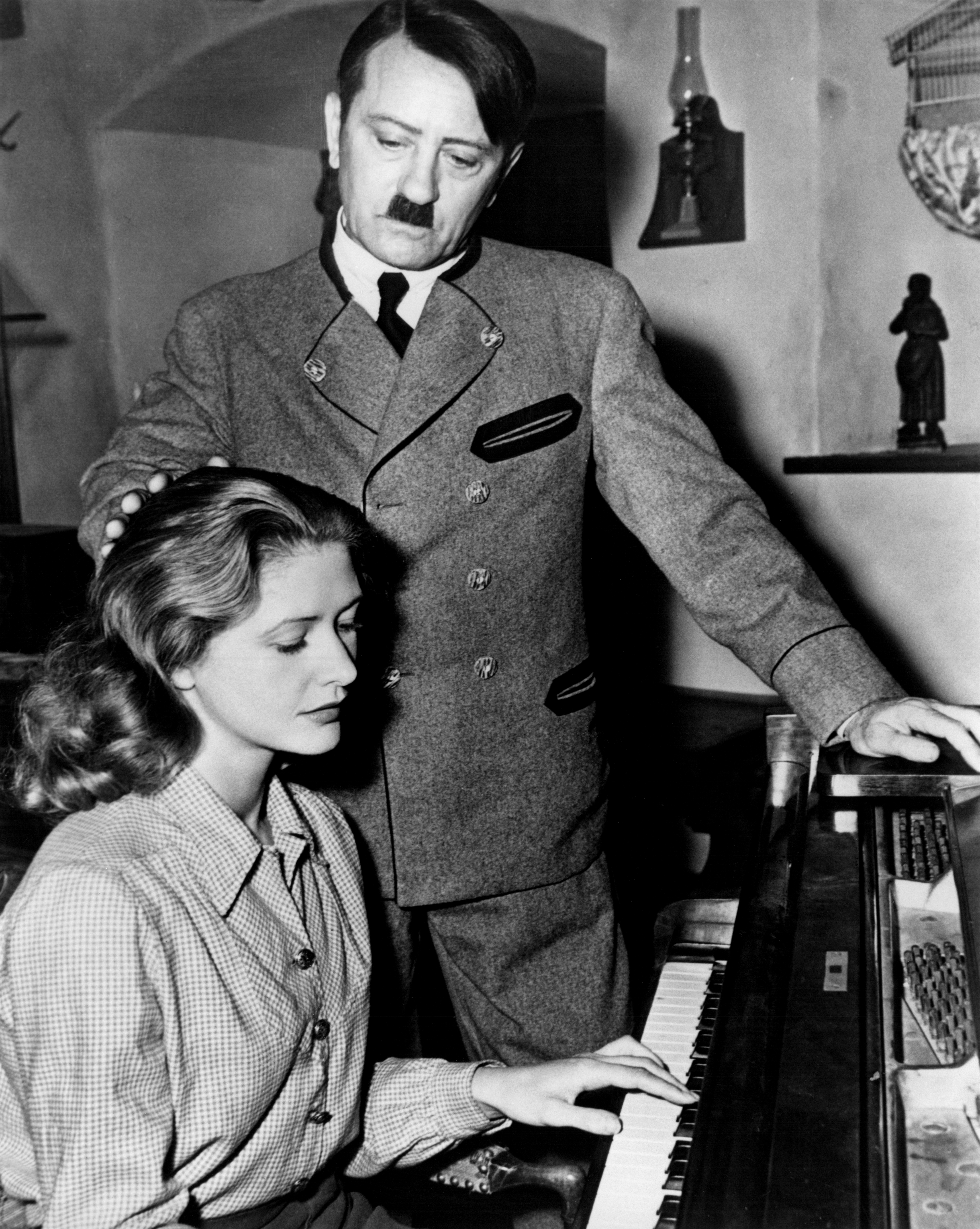 Promotional still from the 1944 film The Hitler Gang, published in New Movies, the National Board of Review Magazine; Adolf Hitler is portrayed by Robert Watson